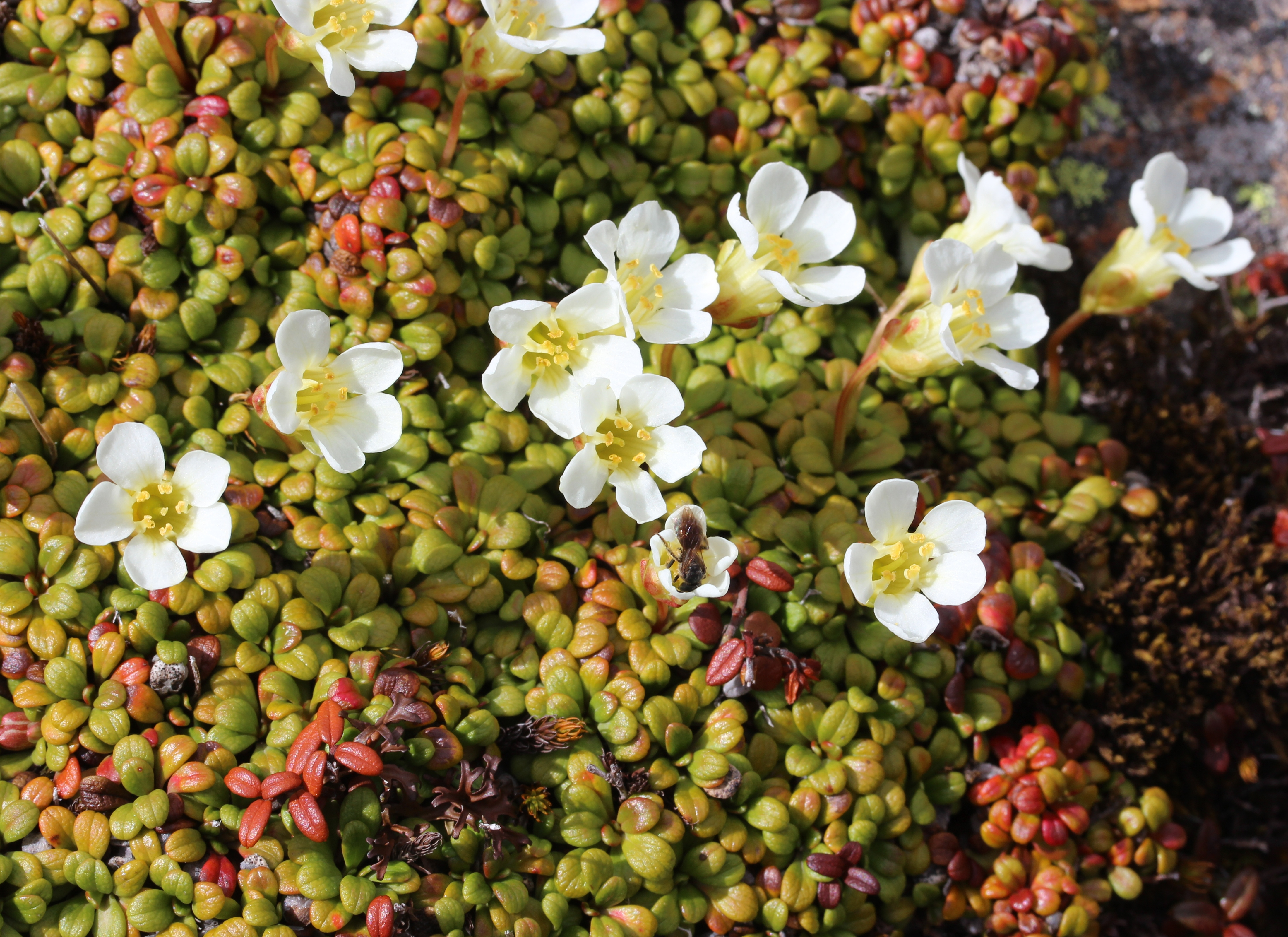 Diapensia lapponica L. subsp. obovata (F.Schmidt) Hultén, in Mount Haku, Japan.